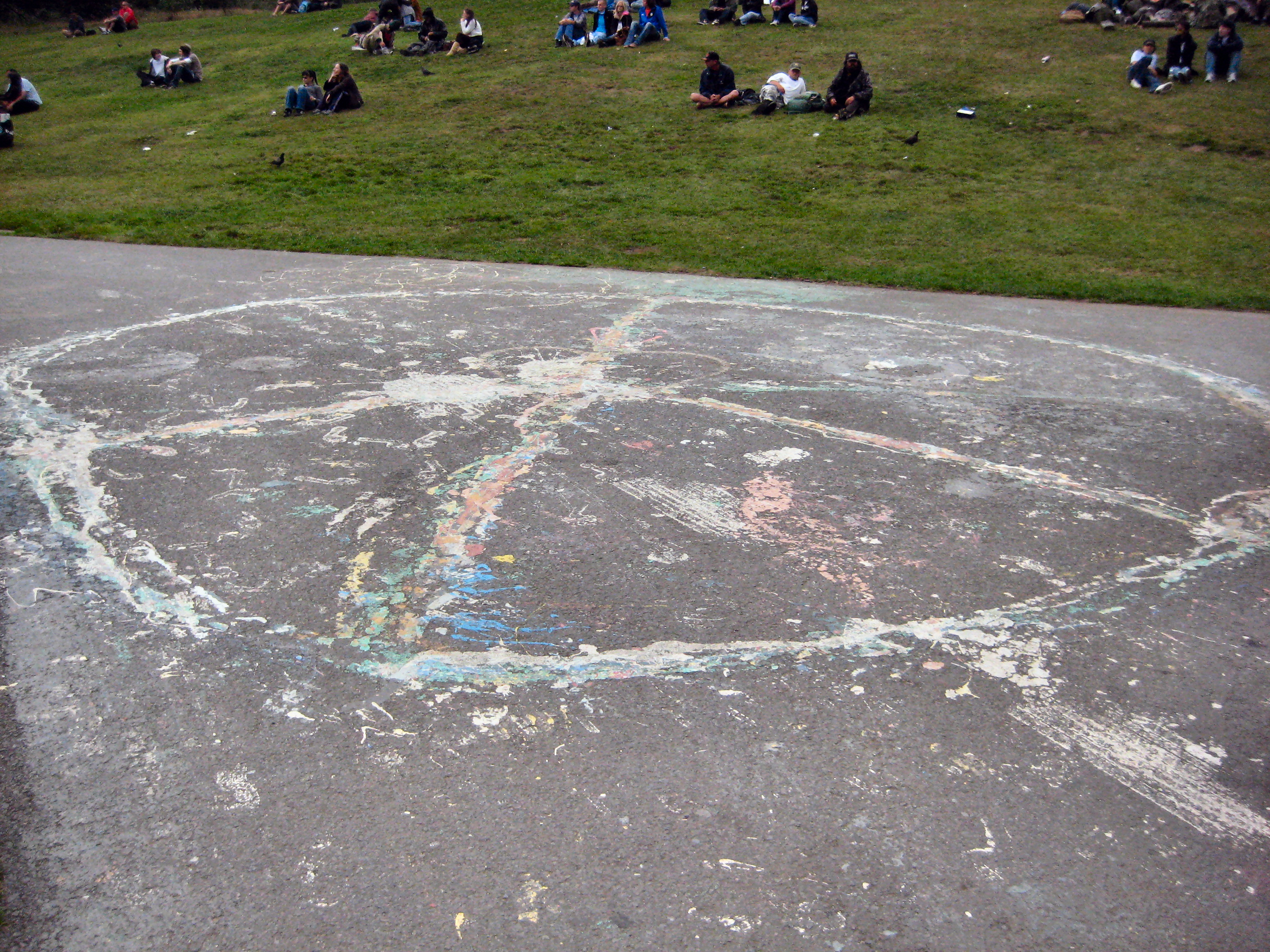 Hippie Hill. This sloppy peace sign marks the threshold for Hippie Hill, San Francisco.